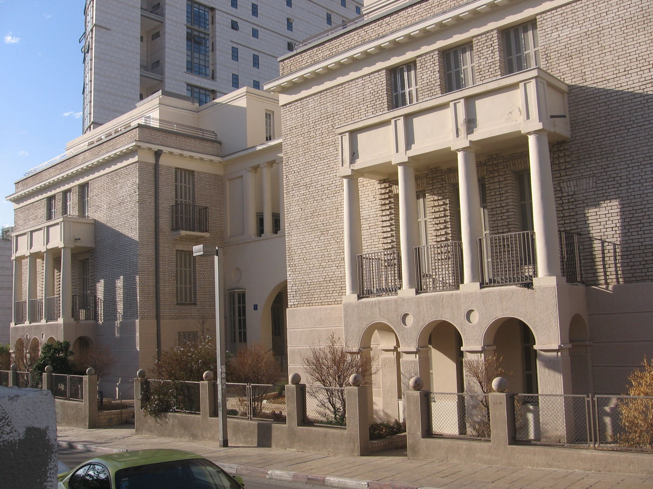 Berlin-Pasovsky house on Mazeh street, Tel Aviv.